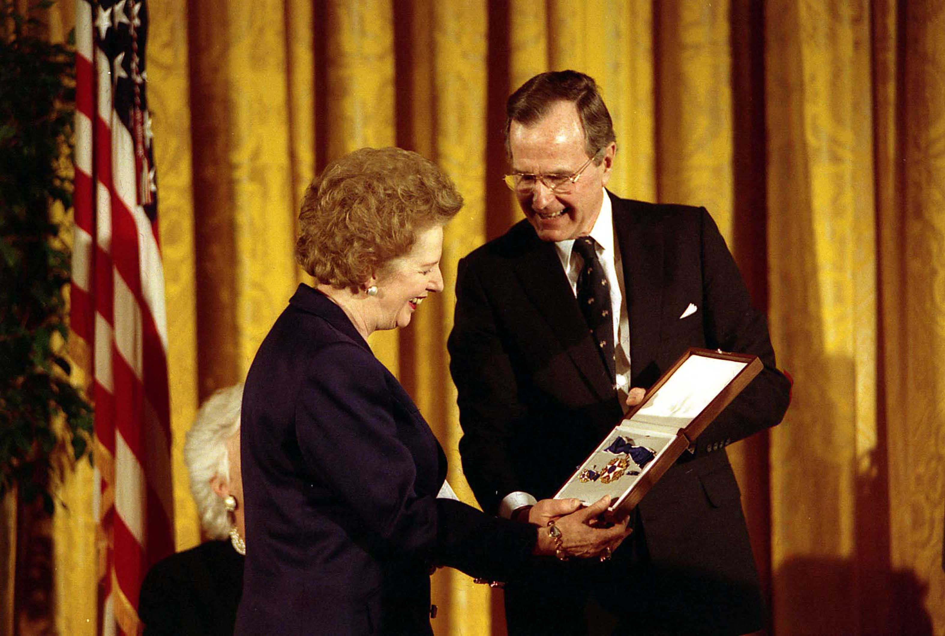 President Bush presents the Presidential Medal of Freedom to former British Prime Minister Margaret Thatcher in the East Room of the White House.